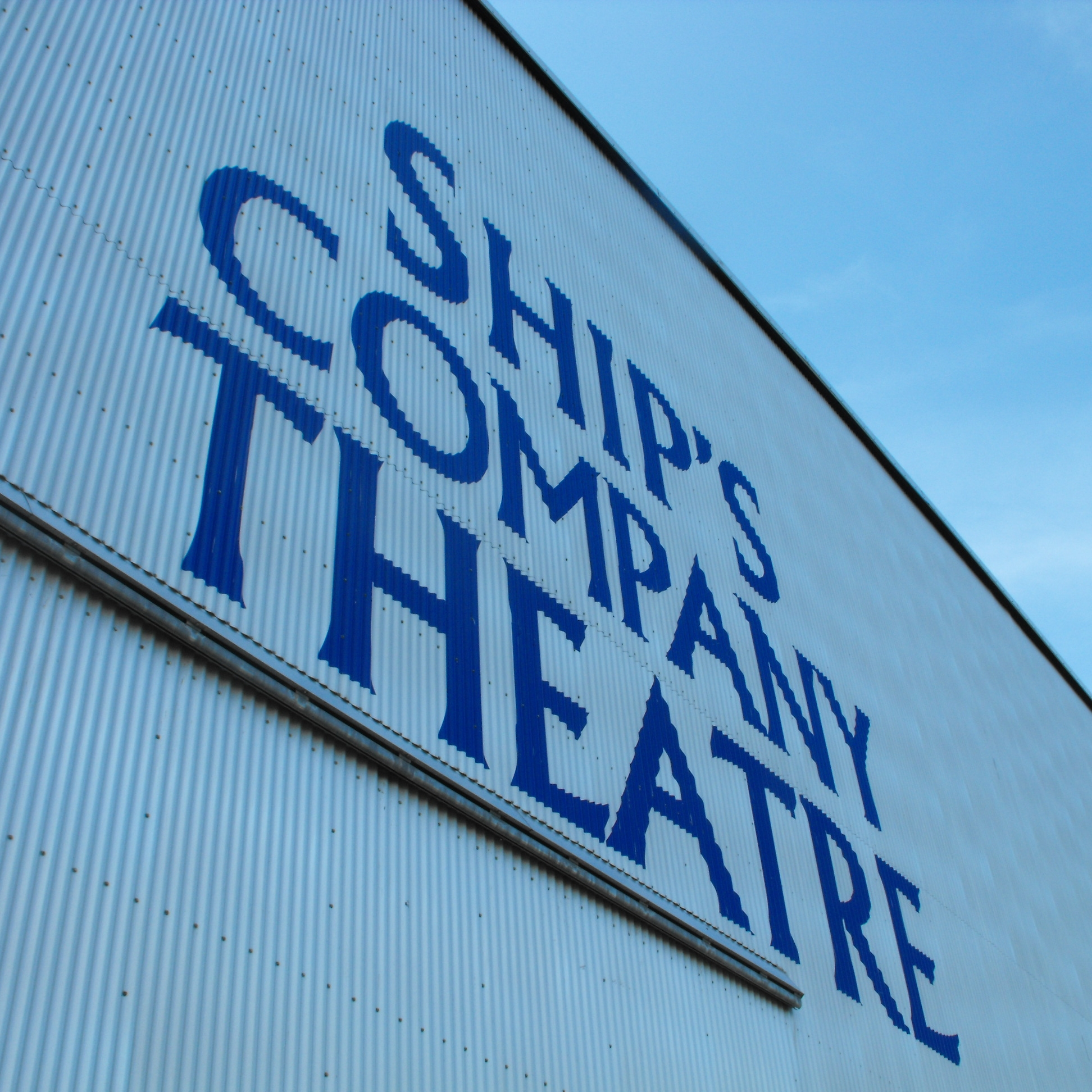 Ships Company Theater Sign, Parrsboro, Nova Scotia 2011